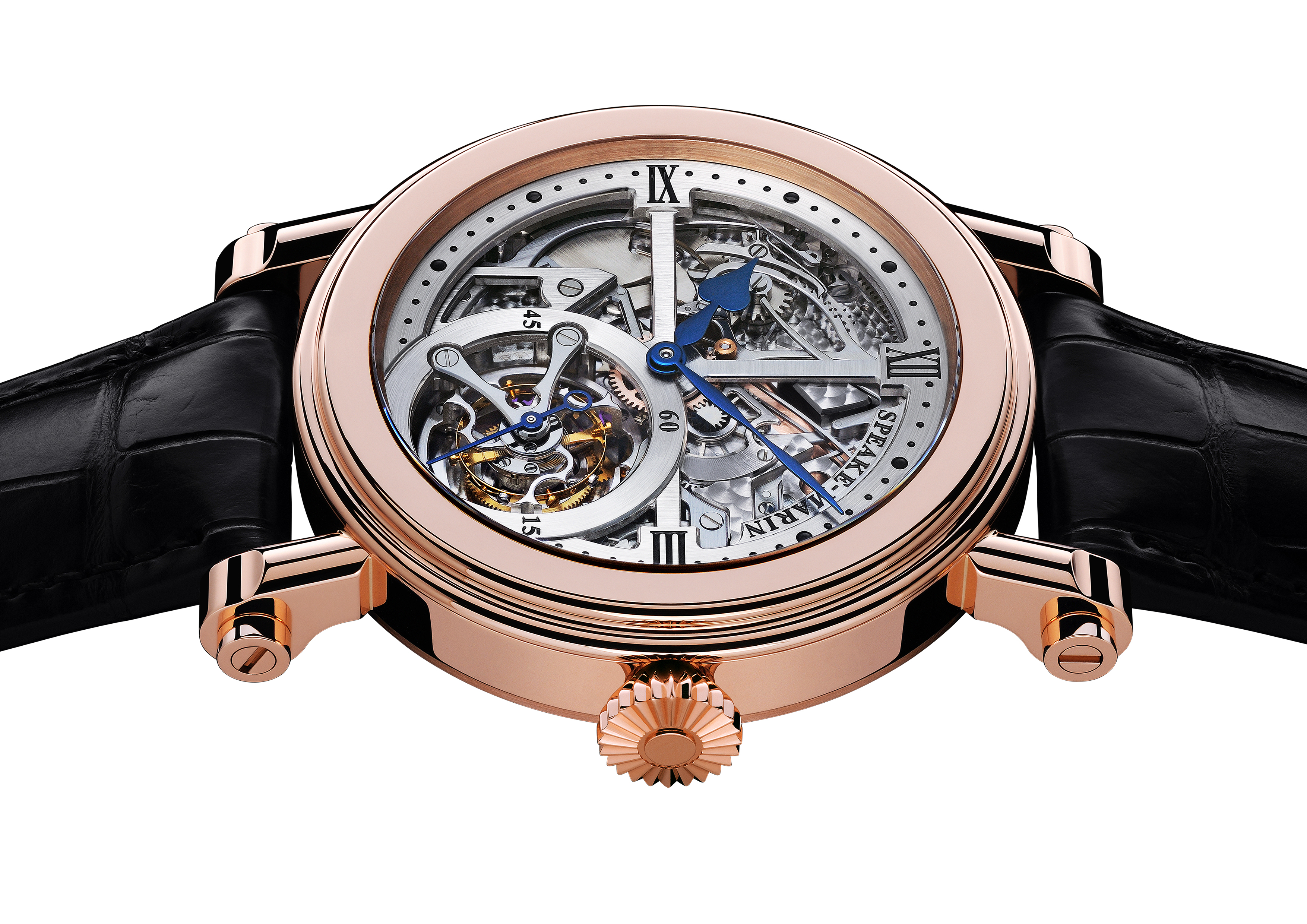 The Renassaissance Minute Repeater Tourbillon by Speake-Marin. For more information, please visit